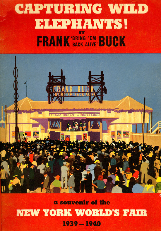 This is a souvenir booklet for Frank Buck's Jungleland at the 1939 New York World's Fair. Source: personal collection